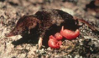 Northern water shrew (Sorex palustris) with newborn young